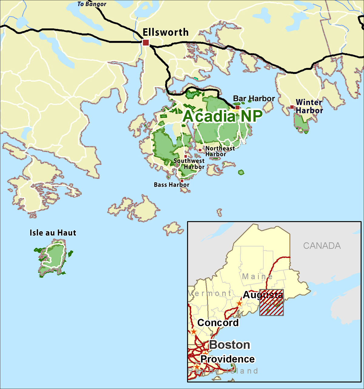 Created by User:Aude